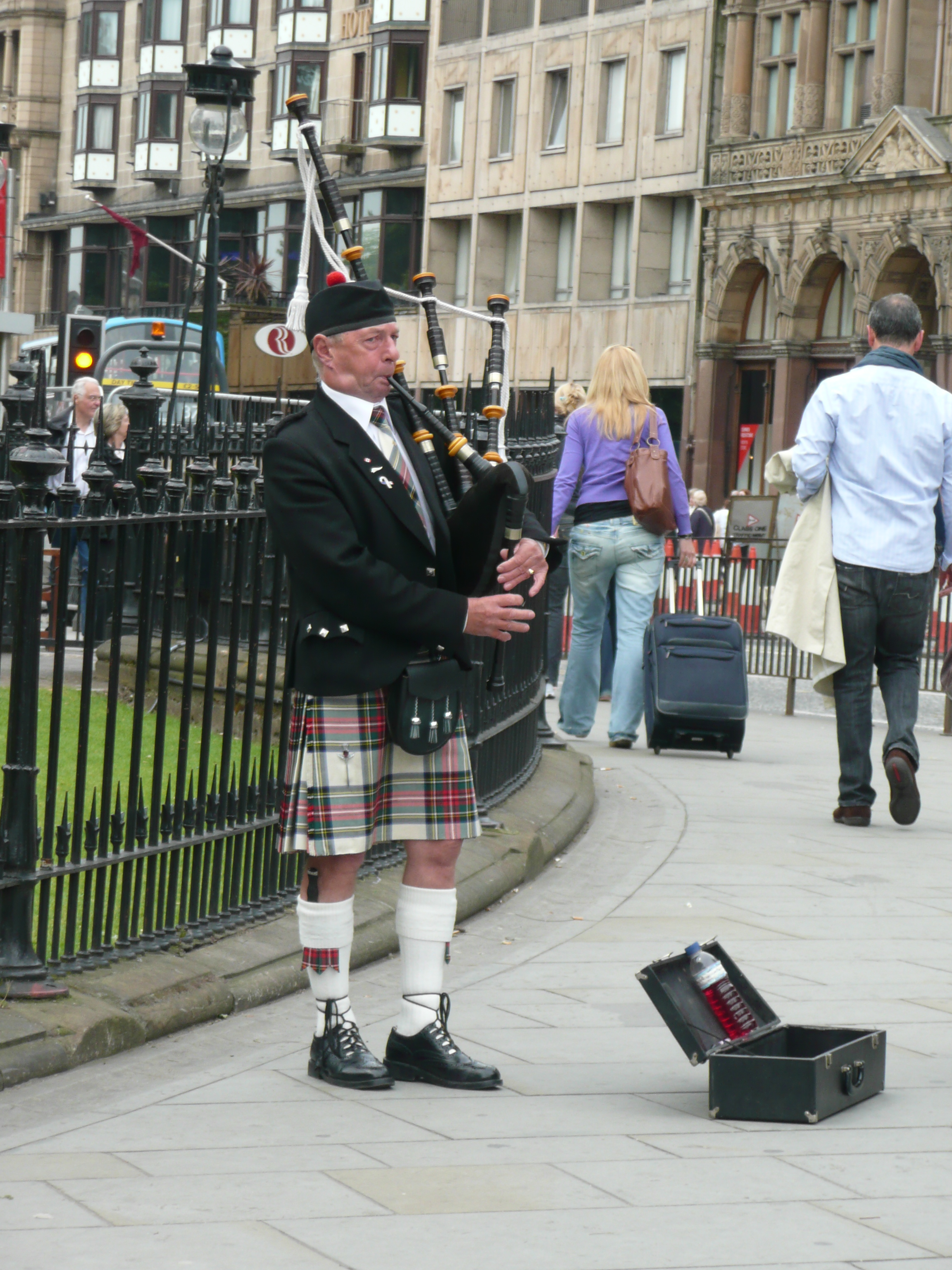 Photographs from Edinburgh, Scotland